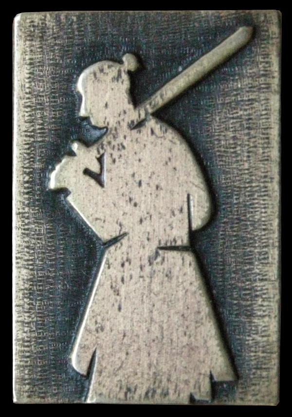 Ronin Club Logo created by Andrzej Krauze